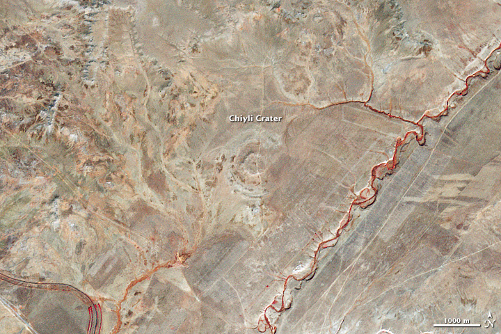 Chiyli Crater, Kazakhstan NASA Earth Observatory image created by Jesse Allen, using data provided courtesy of NASA/GSFC/METI/ERSDAC/JAROS, and U.S./Japan ASTER Science Team. Caption by Michon Scott. Instrument: Terra - ASTER